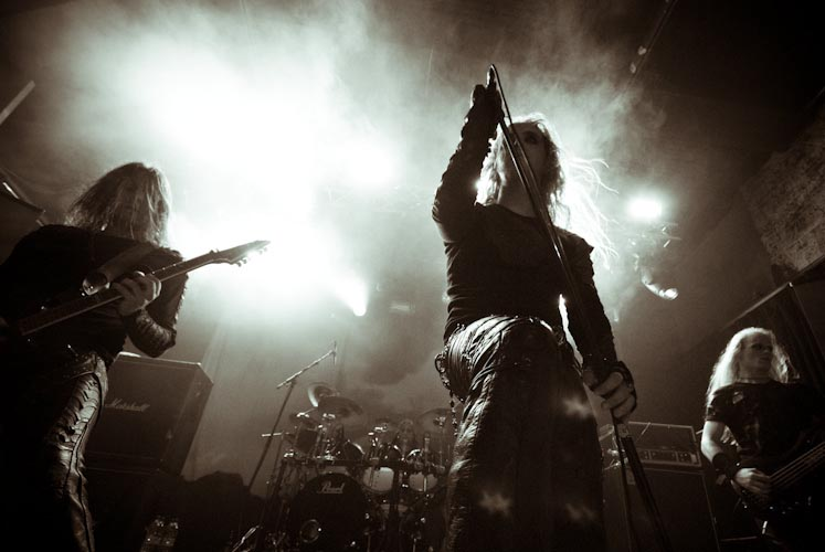 Keep of Kalessin, live at Hole In The Sky, Bergen Metal Fest 2008